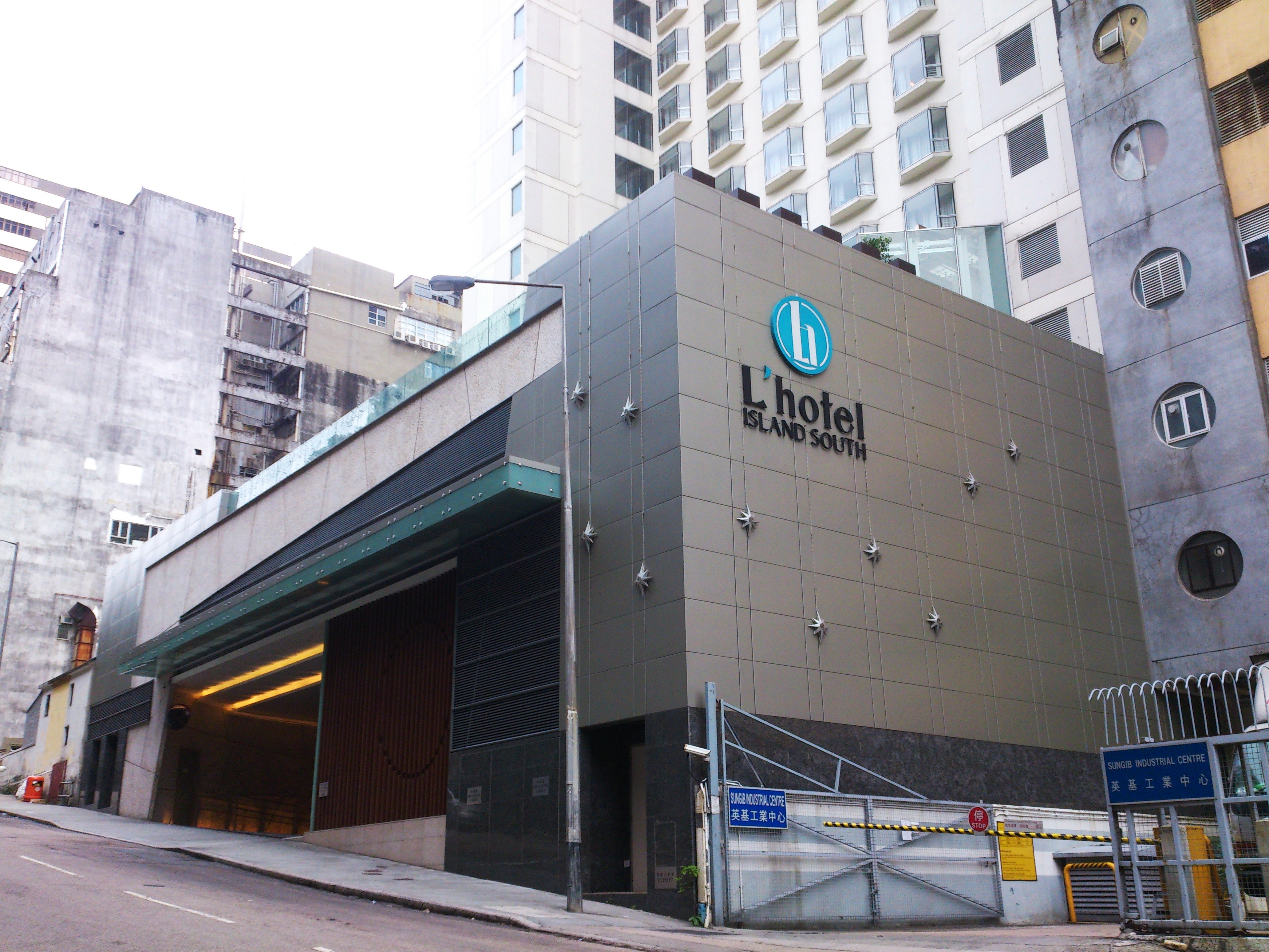 L'hotel Island South Main Entrance